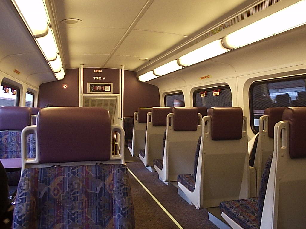 Inside a Metrolink commuter train in Los Angeles.